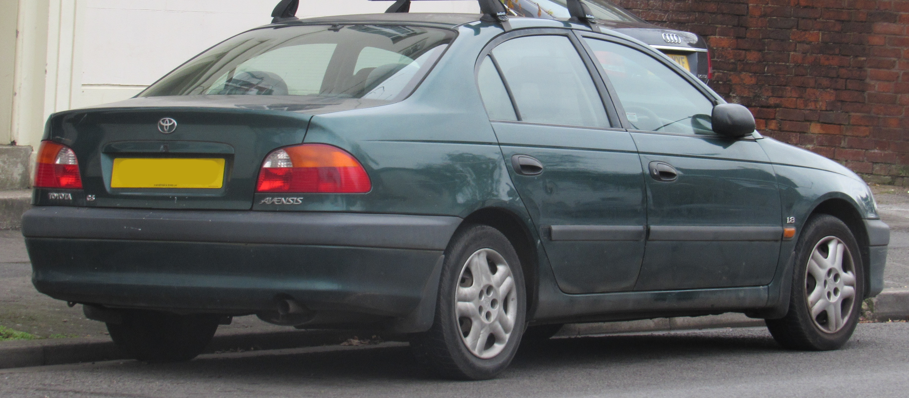 1999 Toyota Avensis GS 1.8 Rear Taken in Leamington Spa